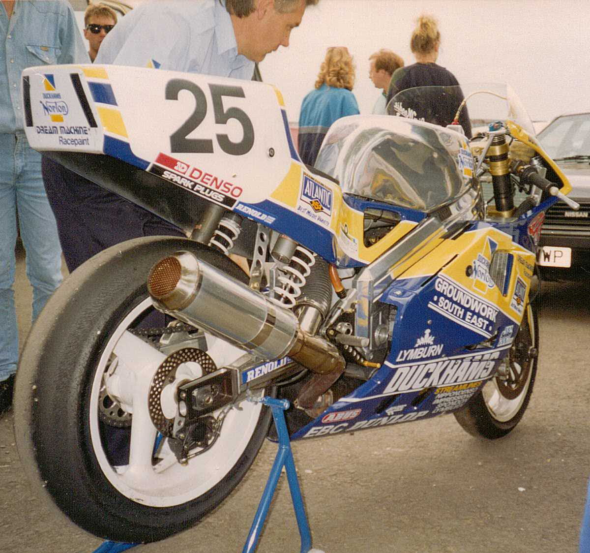 Brian Crighton with his rotary-engined Norton at Donington Park in 1993 ridden by Jim Moodie